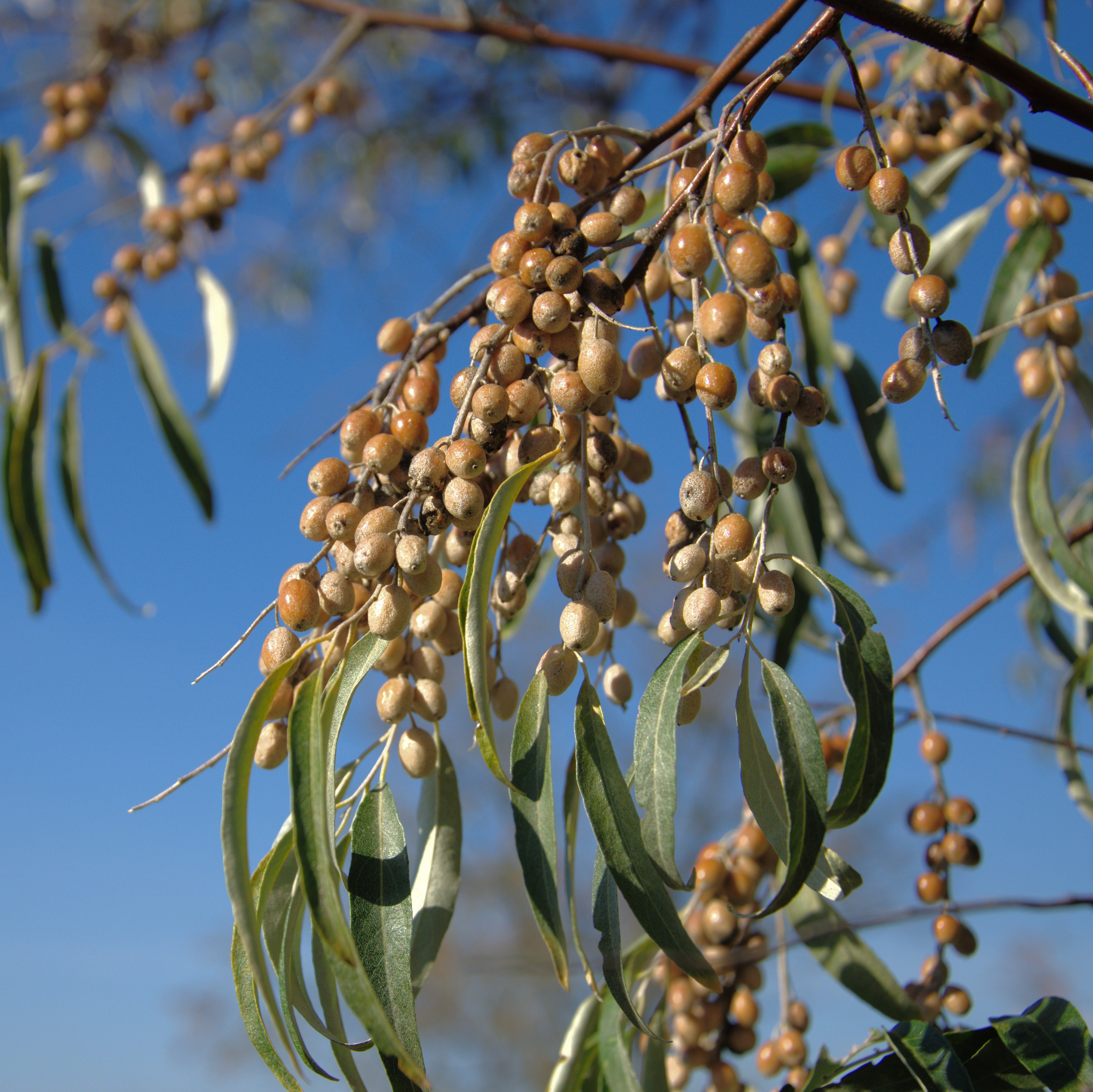 Elaeagnus angustifolia L. in south Ukraine